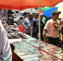 Tepis market